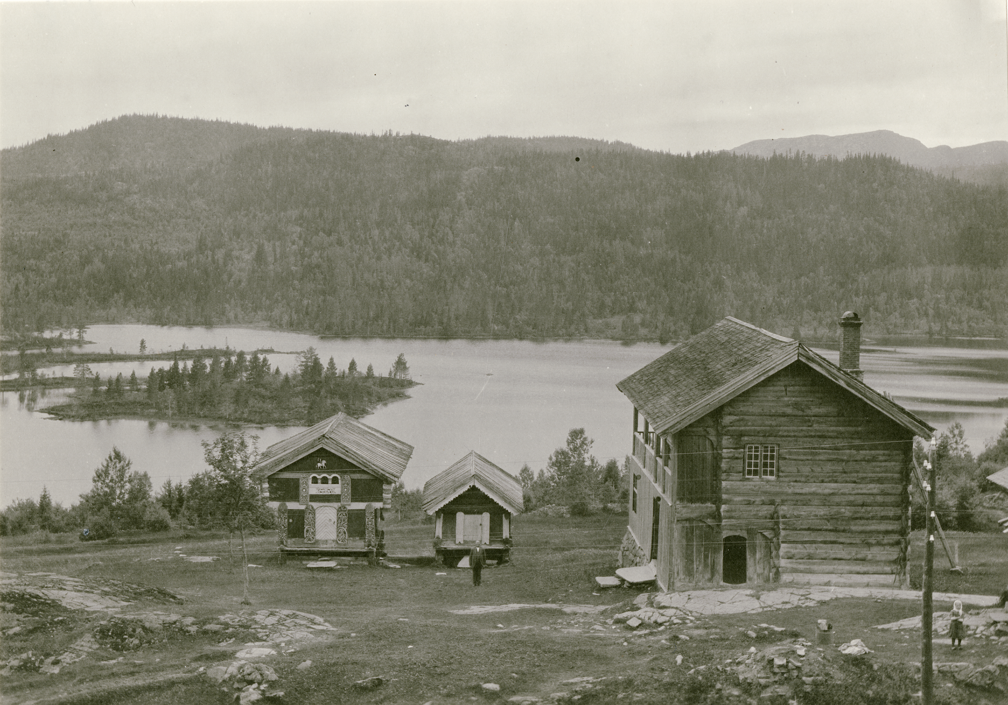 Breiland in Høydalsmo and lake Breilandstjønni in County Telemark, Norway This image on crowdsourcing geotagging platform Fotodugnad